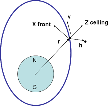 Complexica (author)